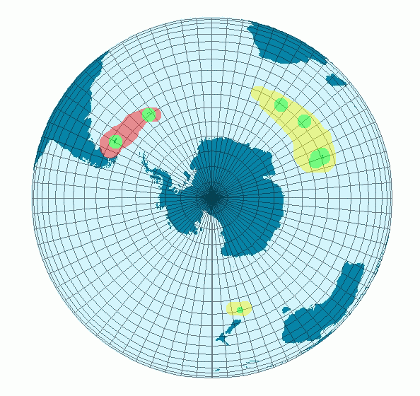 King Penguin Aptenodytes patagonicus - Habitat map and breeding areas. Red: areas where the King Penguin Aptenodytes patagonicus patagonicus lives. Yellow: areas where the King Penguin Aptenodytes patagonicus halli lives. Green: areas where the King Penguin breeds.